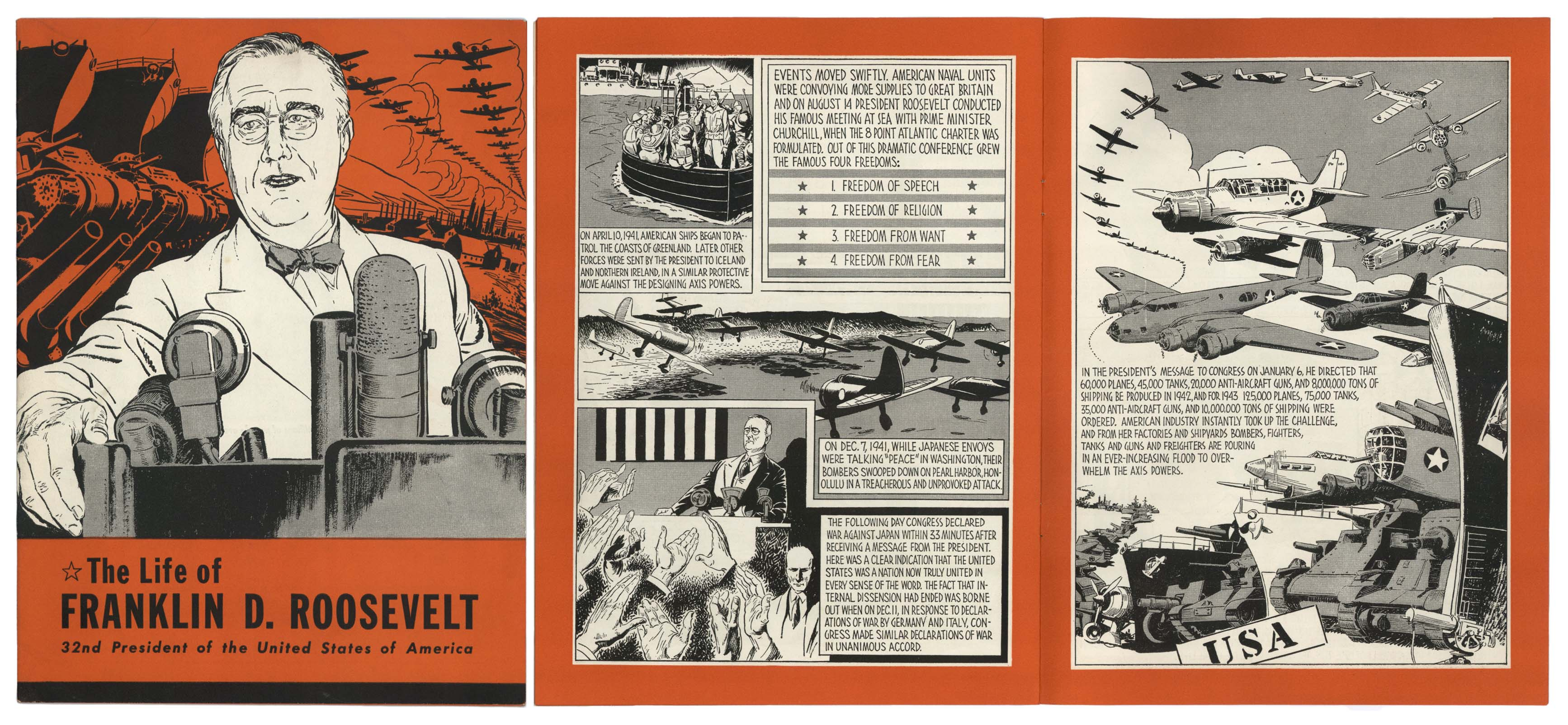 On November 7 1944, Franklin D Roosevelt was elected President of the United States for a fourth term; the only person in US history to do so. Did the dynamic designs above have anything to do with his success at the polls? 'The Life of Franklin D Roosevelt' is a 16-page comic book created by the Office of War Information in 1943. A large number of these US government comics were developed, illustrated and published with the intention of educating citizens and military personnel. They aimed to reflect the life of American soldiers while deployed, and explain US foreign policy for specific actions and conflicts. In the comic above Roosevelt is represented as personifying America - a persistent individual who is rugged, tough and dynamic. It depicts him playing football at Harvard, sailing the high seas, restoring American prosperity with giant public works projects, and his conduct during the first years of World War 2. However, some critics charged that the comic was simply election propaganda with no informational value to soldiers. Congressman John Taber argued that it was "purely political propaganda…designed entirely to promote a fourth term and dictatorship.” Why is this comic at Archives New Zealand? A copy was collected by the New Zealand Army Archives Section during the Second World War, and sits alongside other short biographies in the Unit War Diaries, Unit Records and Supplementary Material collection: Archives Reference: WAII1 Box 292/ DA 406/384 For updates on our On This Day series and news from Archives New Zealand, follow us on Twitter Material from Archives New Zealand